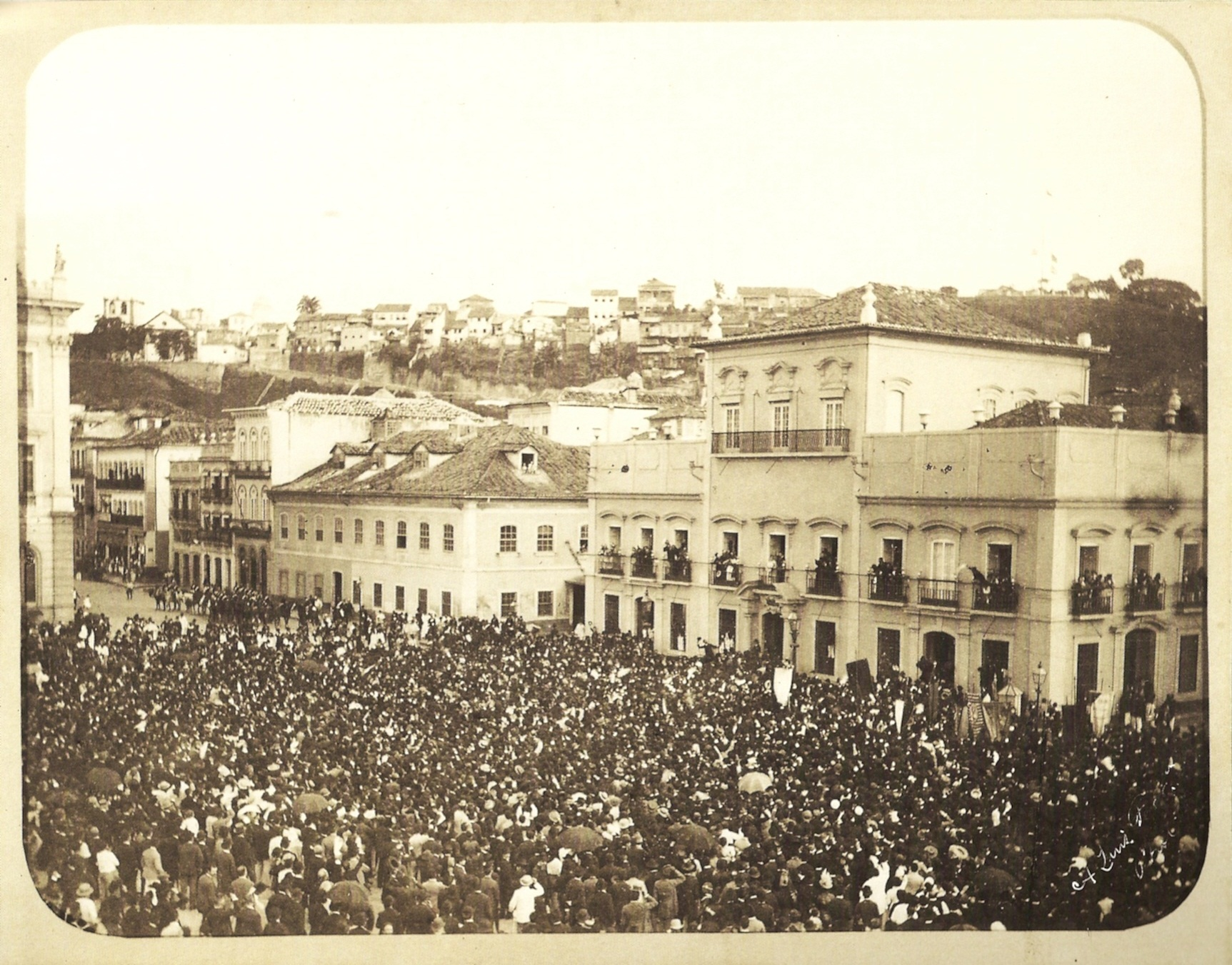 Isabel, Princess Imperial of Brazil is cheered from the central balcony by a huge crowd below in the streets, moments after having signed the Golden Law.